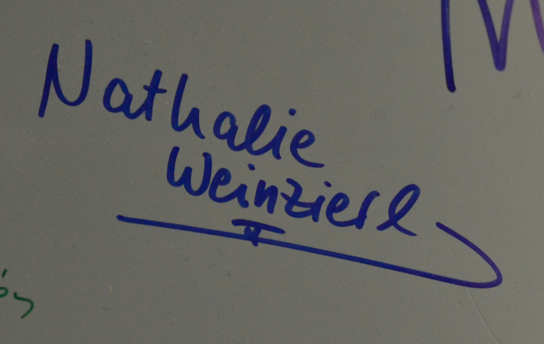 Outfitting the Olympic teams of Germany 2014; Media day January 20th 2014 at Military Airport Erding.